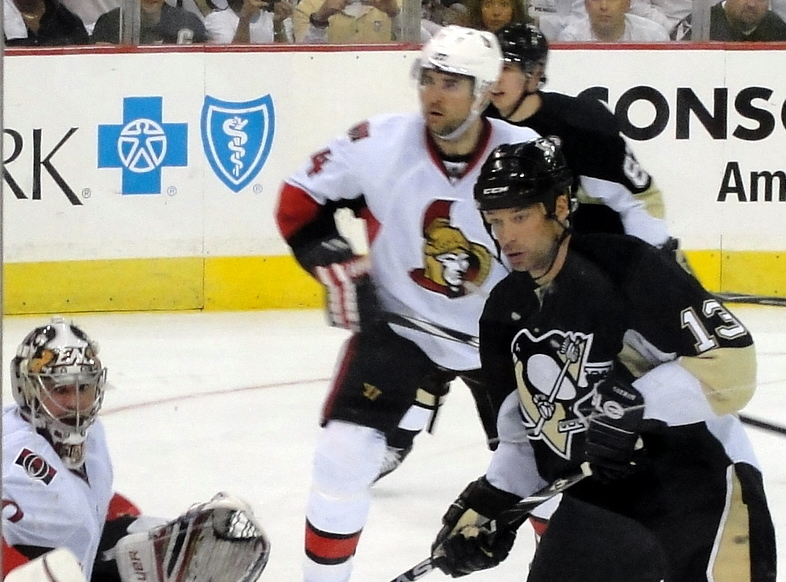 Bill Guerin of the Pittsburgh Penguins sets up in front of the Ottawa Senators net during a April 16, 2010 playoff game at Mellon Arena in Pittsburgh, PA.